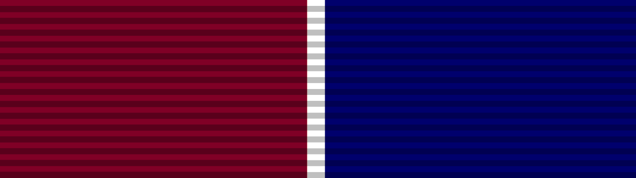 The Memory Medal is awarded to express gratitude for the person’s contribution to the development of the Latvian Defence by advancing Latvia’s membership to NATO.